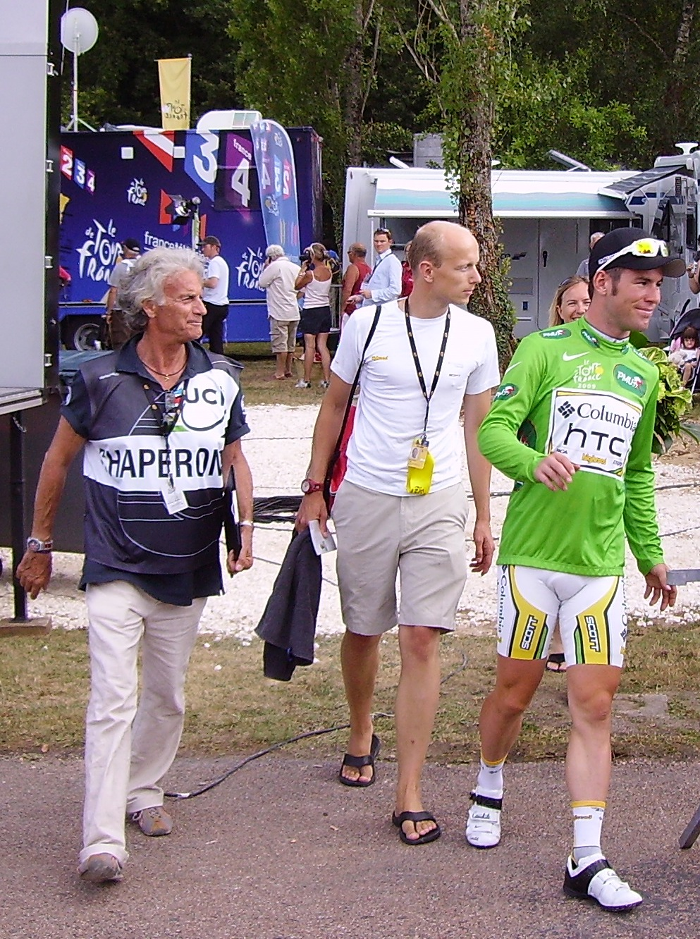 Mark Cavendish winner of the 11th stage of the 2009 Tour de France and chaperone.